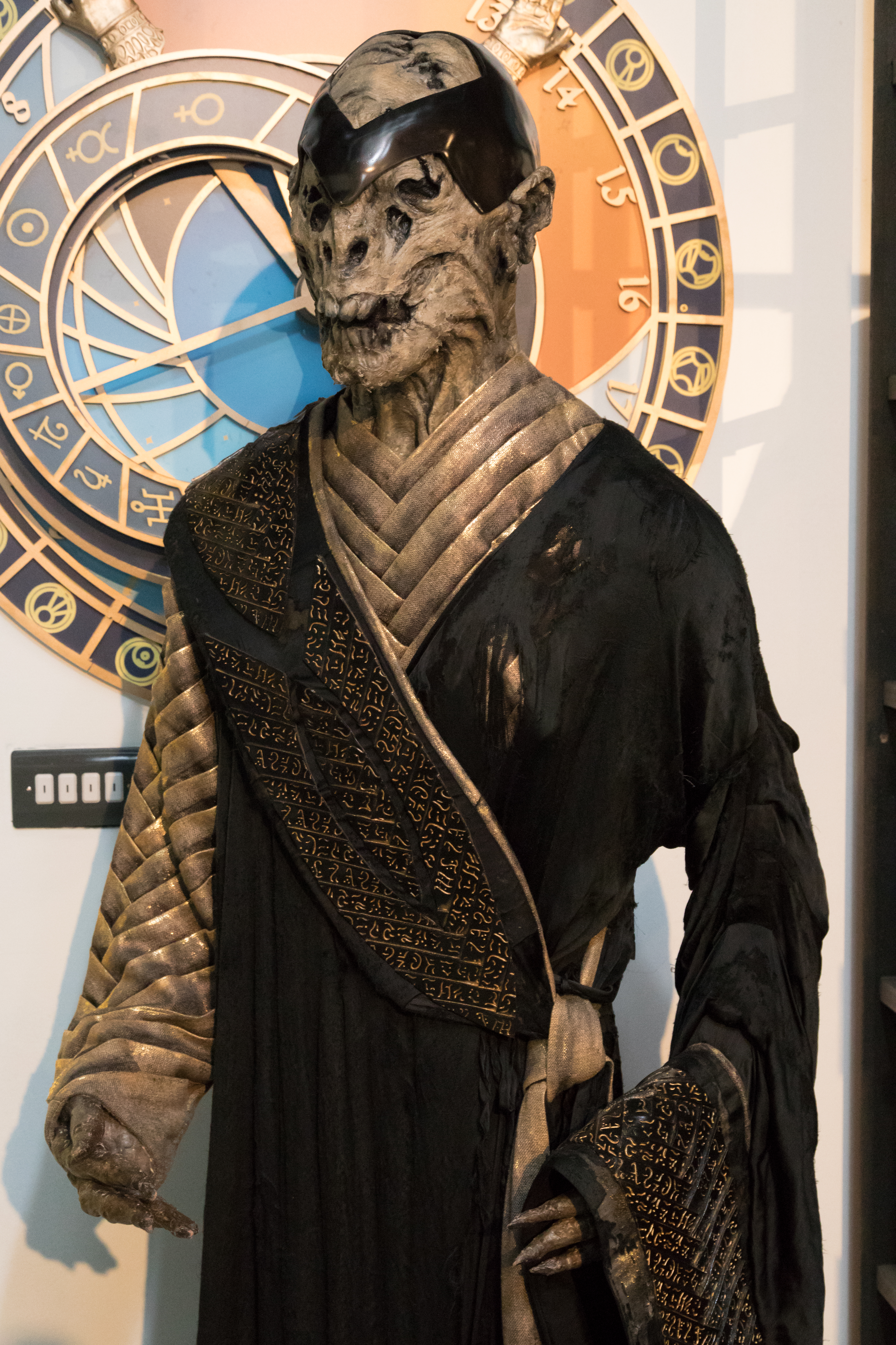 Click here to view my Doctor Who collection Click here to view my Doctor Who locations collection Doctor Who Experience